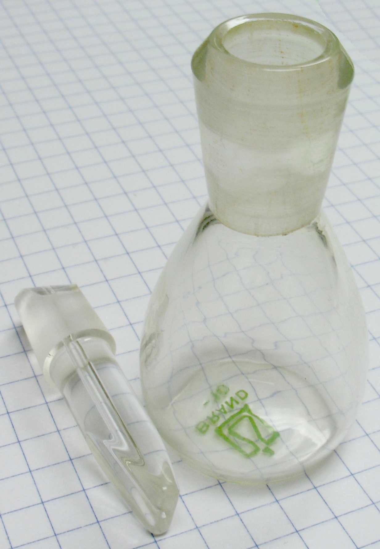 An empty pycnometer, photographed on 5 mm squares.